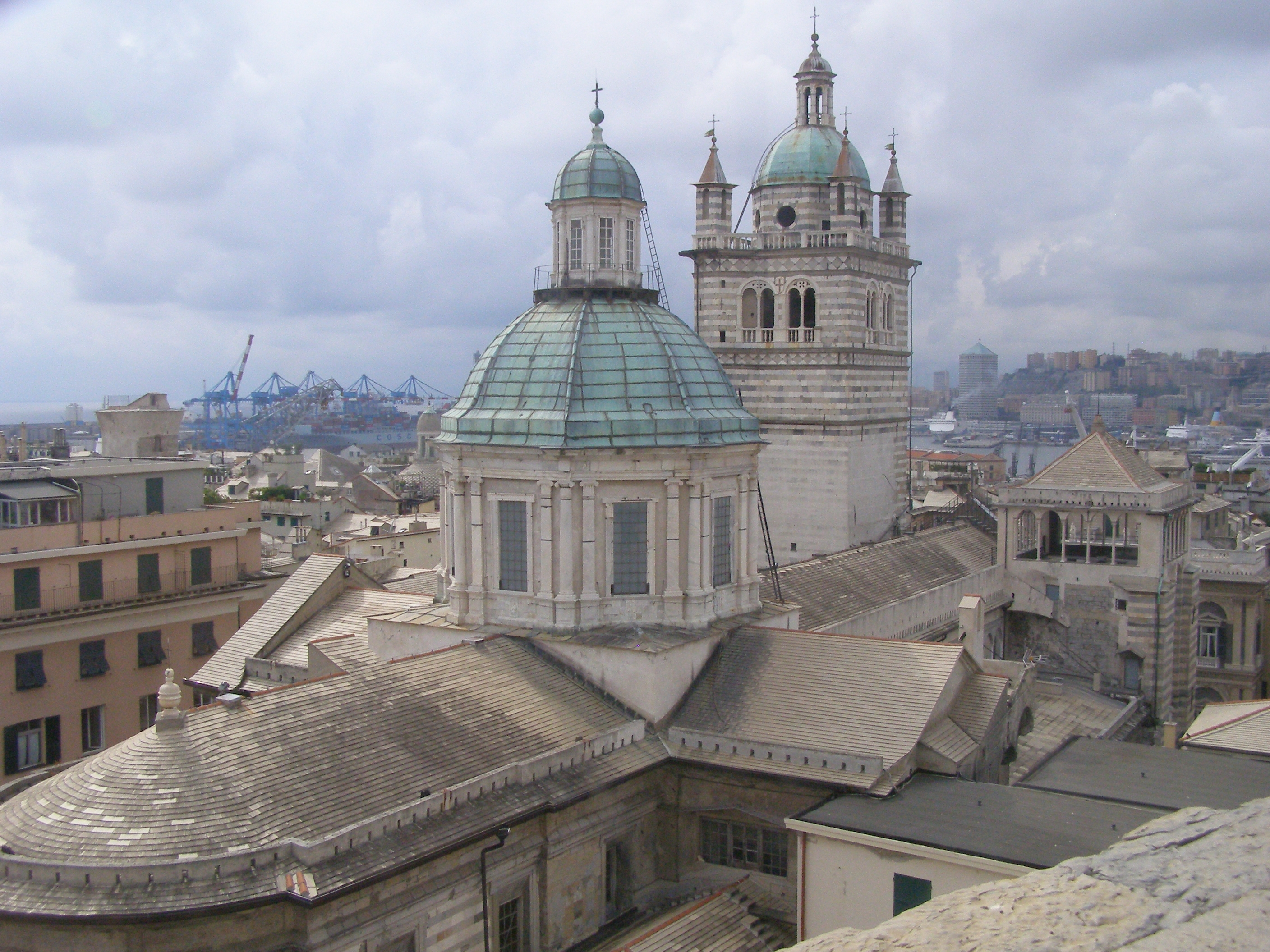 Genoa - San Lorenzo cathedral seen from the Grimaldina tower in the Palace of the Doges